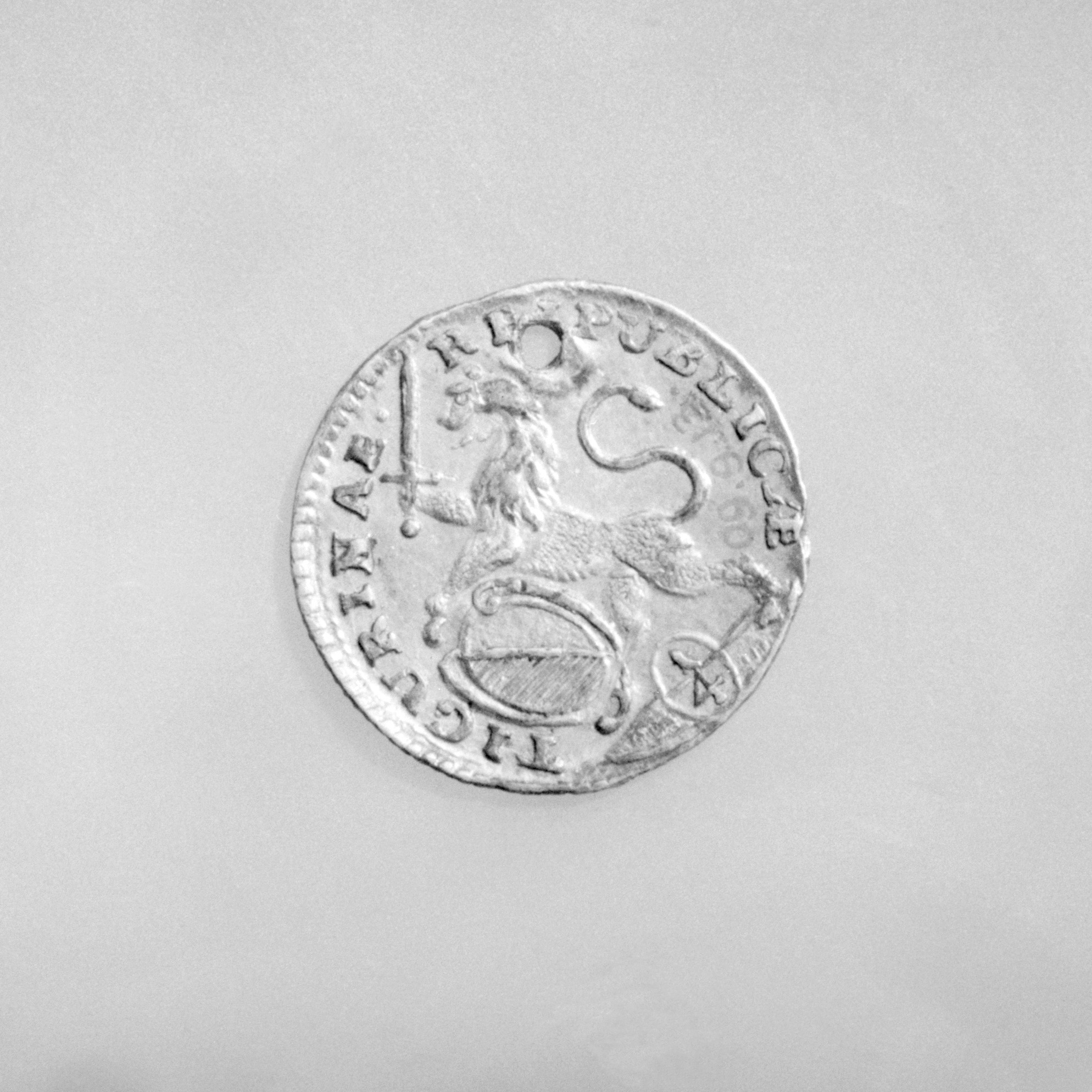 Swiss; Pistole (1/4 ducat); Coins